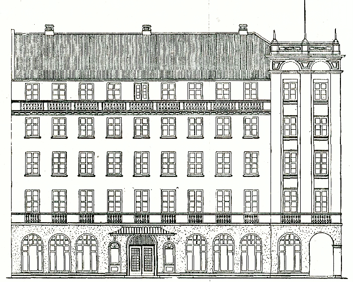 Drawing of the building Hotel Borg in center of Reykjavik 1930